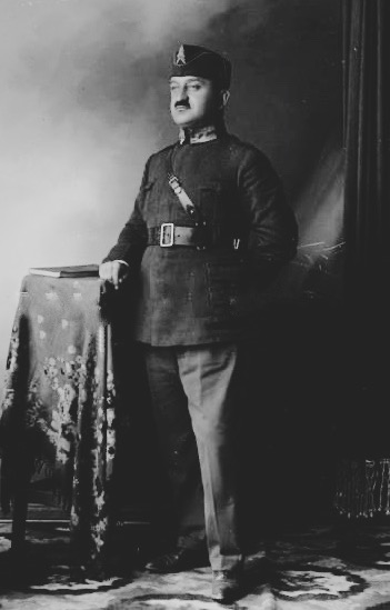 A standing portrait of Xhemal Aranitasi